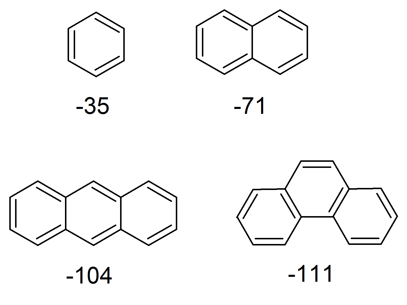 Aromatic Stabilization Energies of benzenoid hydrocarbons